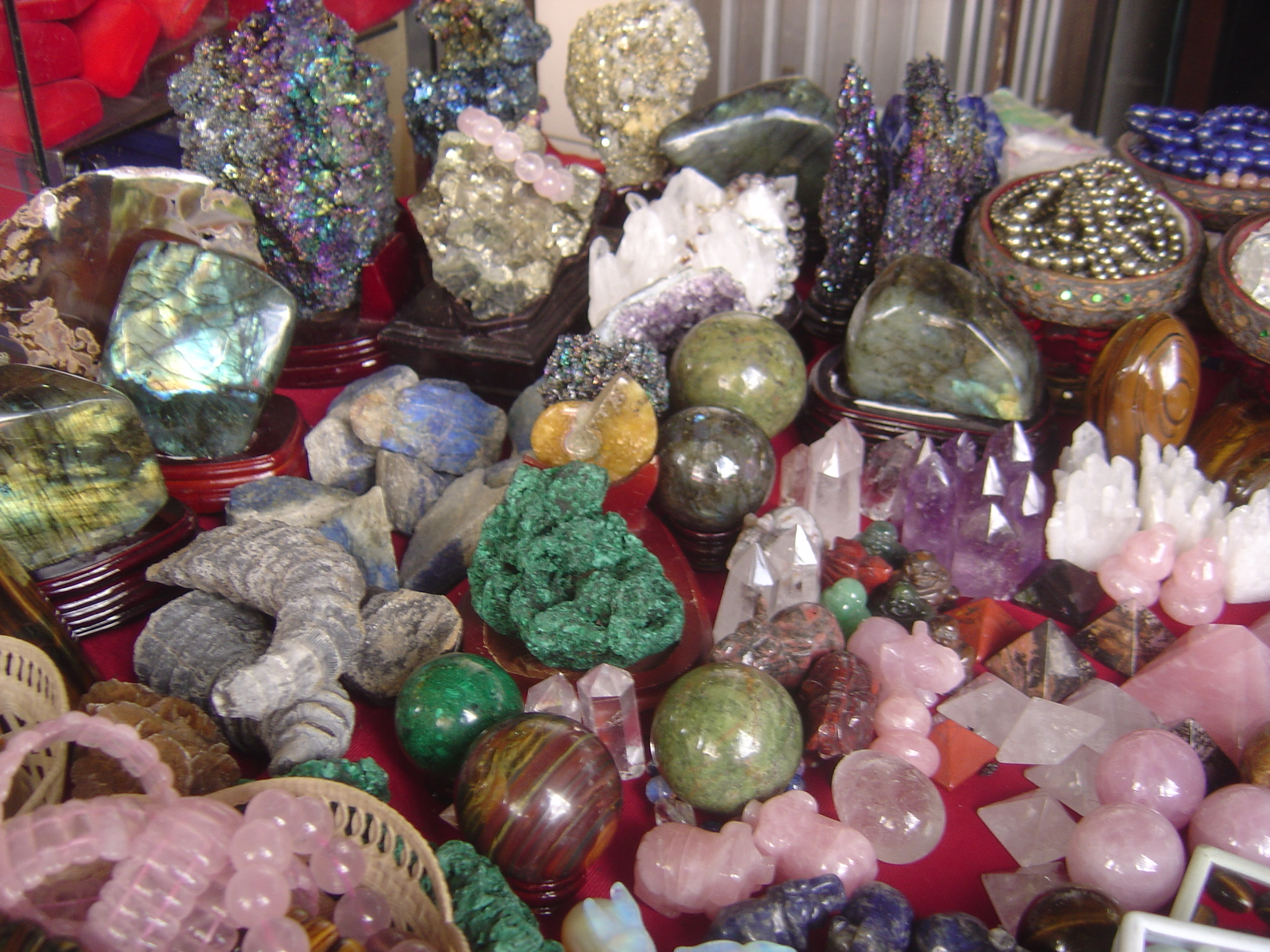 Mix of real and fake minerals sold in a market in Bangkok in Thailand in August 2011 Fakes : Carborundum or fake moissanite, fake malachite. The saler has confirmed me, that he was importing these products from China, where they were made. He has also confirmed the fake ones : carborundum and malachite Reals : all the other minerals including egg of real malachite